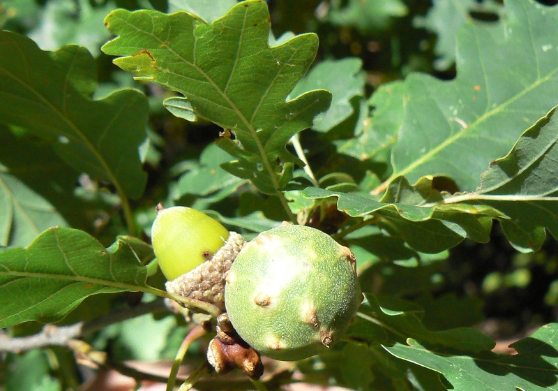 An oak apple and an acorn, on a same branch